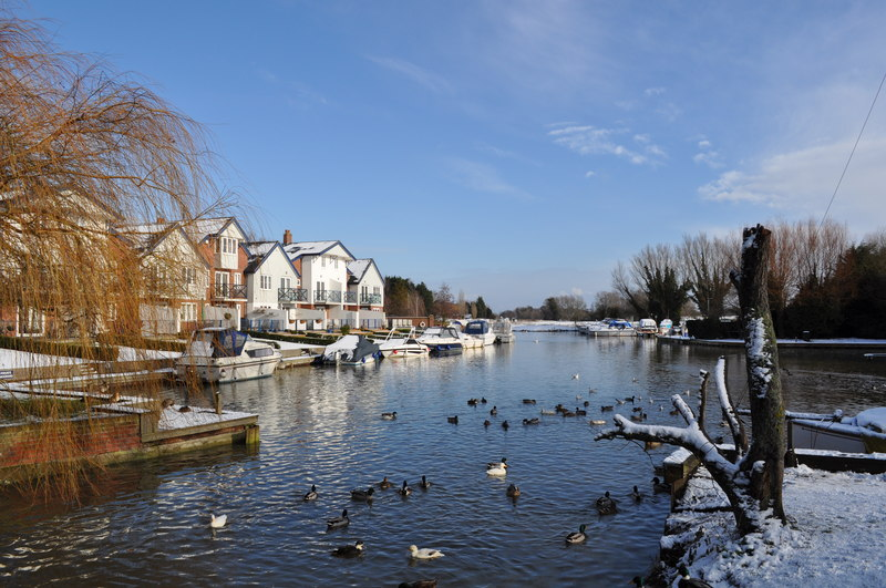 The end of the Chet, near to Loddon, Norfolk, Great Britain. This is the end of the navigational Chet at Loddon moorings. The Moorings on the right are free for 24 hours and on the left are private. The houses are built on the site of boat yards, when I was at first school in the nineties I remember them when feeding the ducks. When the boat trade moved else where luxury houses where built, transforming the view (For better or worse is debatable).